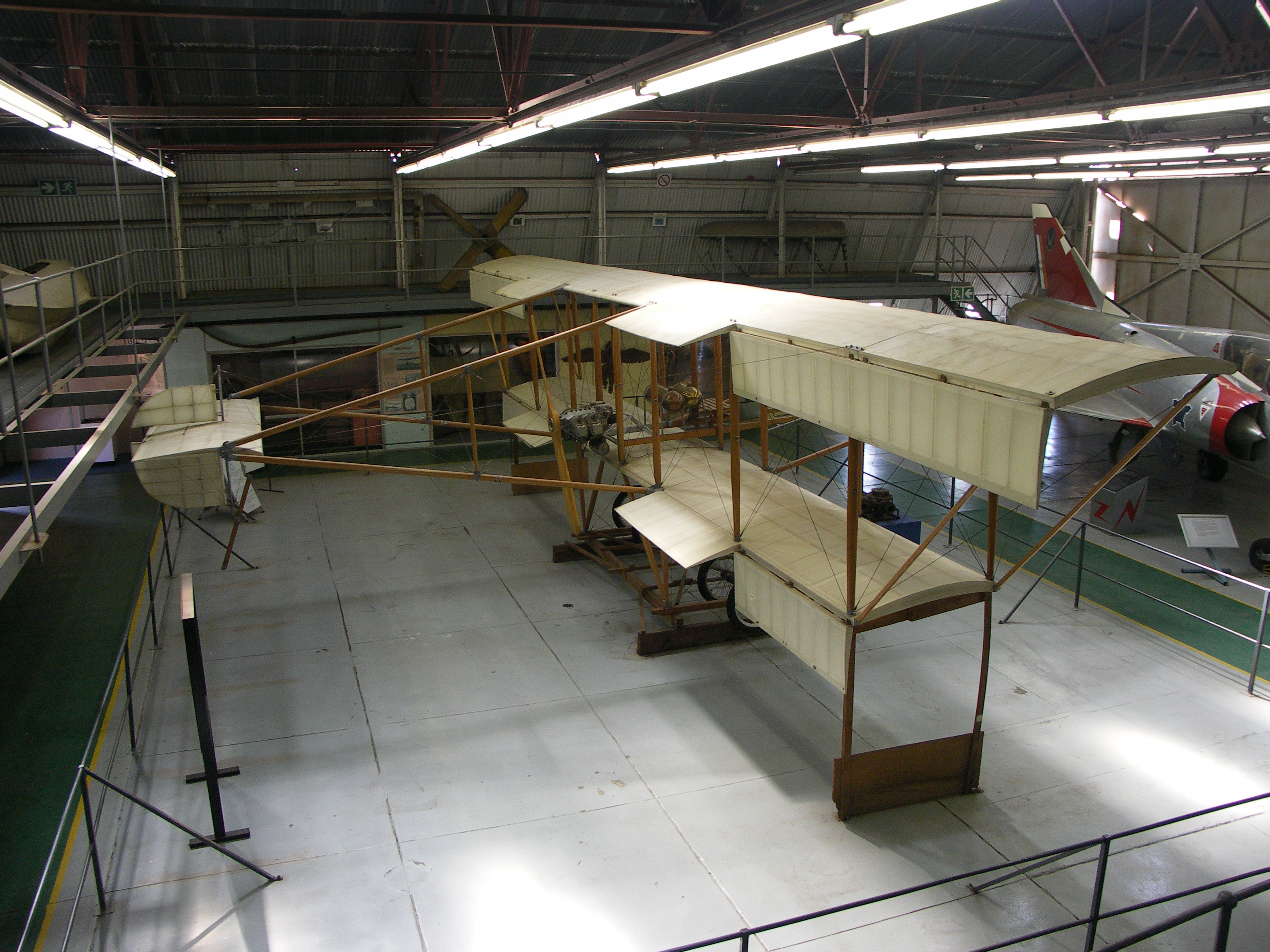 Replica of a Patterson Number 2 Biplane. Replica build by Ben Rodriques Designed by Cecil Compton Patterson as part of the African Aviation Syndicate around 1912 Manufacturer Liverpool Motor House Ltd. Wingspan 9.75m Length 9.98m Weight 340kg Engine 50hp Gnome South African Air Force Museum, Swartkop